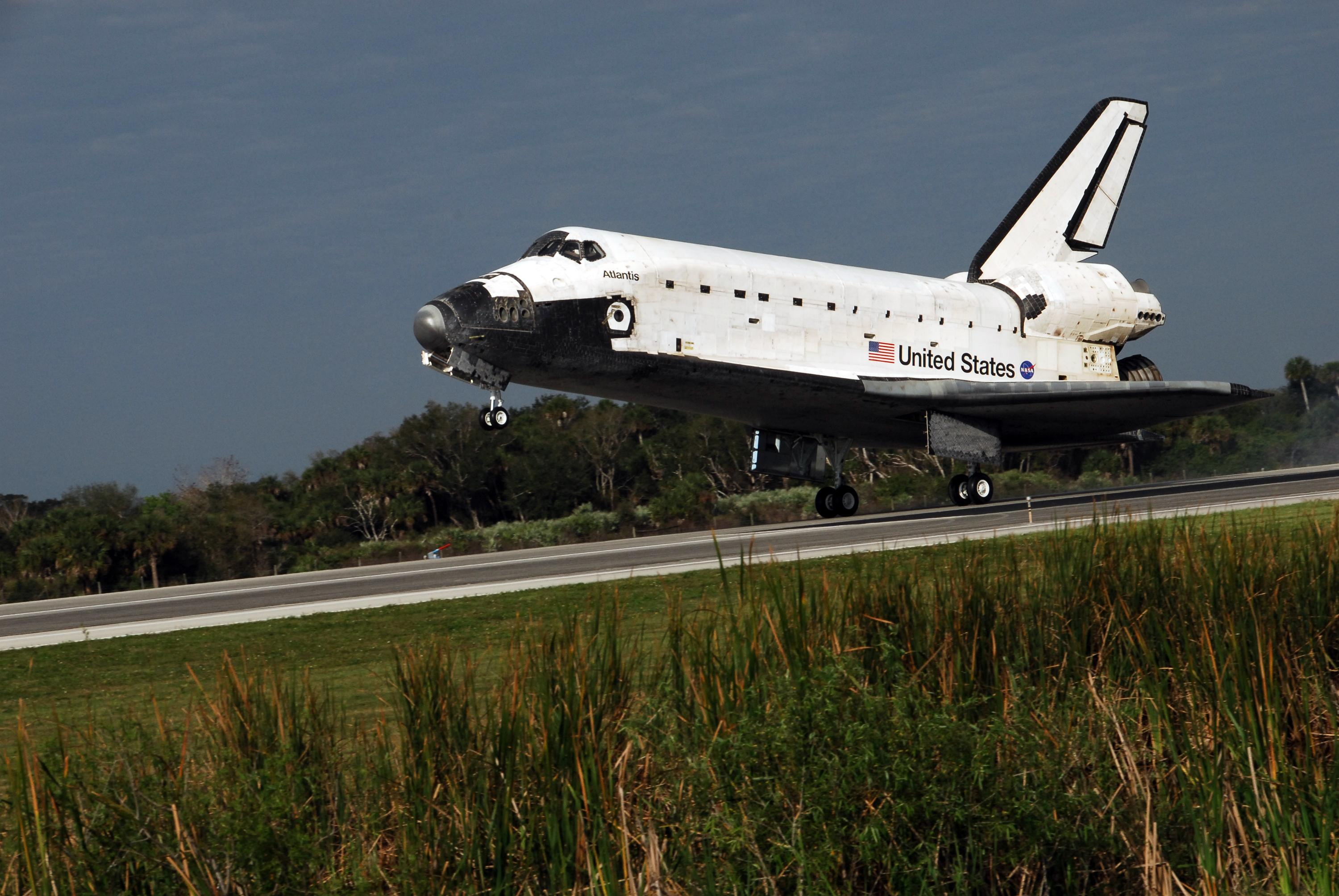 The space shuttle Atlantis touches down on Runway 15 of the Shuttle Landing Facility at NASA's Kennedy Space Center. The shuttle landed on orbit 202 to complete the 13-day STS-122 mission. Main gear touchdown was 9:07:10 a.m. Nose gear touchdown was 9:07:20 a.m. Wheel stop was at 9:08:08 a.m. Mission elapsed time was 12 days, 18 hours, 21 minutes and 44 seconds. During the mission, Atlantis' crew installed the new Columbus laboratory, leaving a larger space station and one with increased science capabilities. The Columbus Research Module adds nearly 1,000 cubic feet of habitable volume and affords room for 10 experiment racks, each an independent science lab.